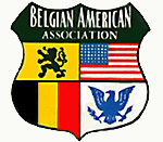 BAA Logo